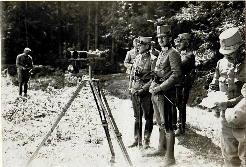 Erzherzog Karl besucht da VIII. Korpskommando in Łuck